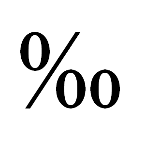 ‰, thousandth, per mil, per mille, permillage